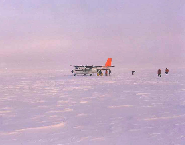 We had to refuel at 85 degrees north (the max range of the plane...the point of no return). We had set out several drums of fuel the day before...and we had some extra fuel drums in the cabin too =)